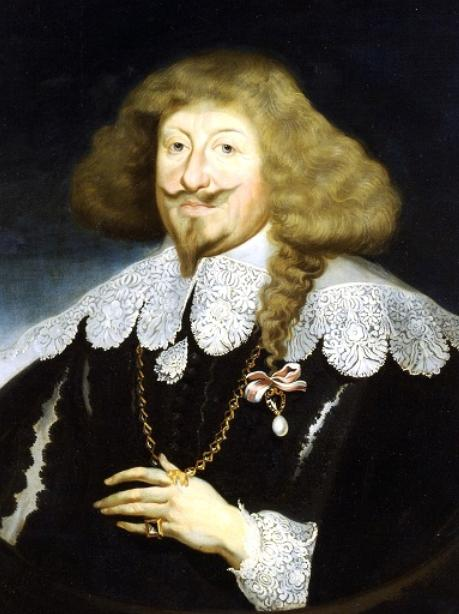 King Vladislaw IV of Poland